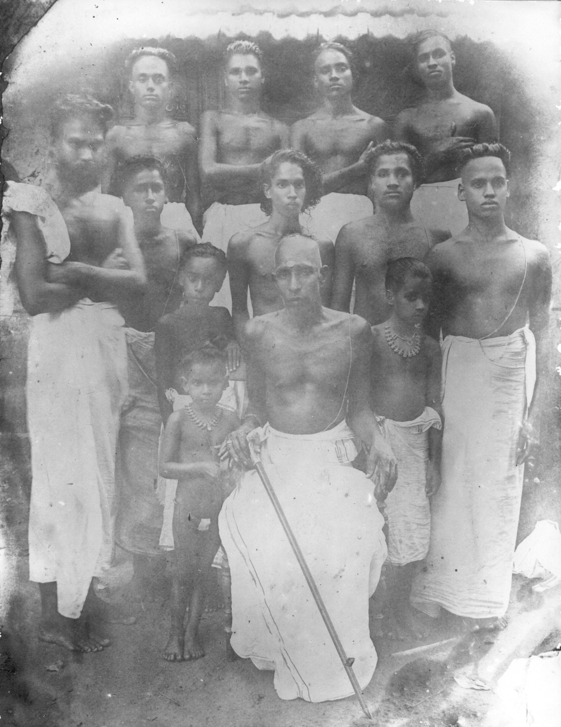 Vaidyaratnam T P Moossad alongwith his several disciples and family members